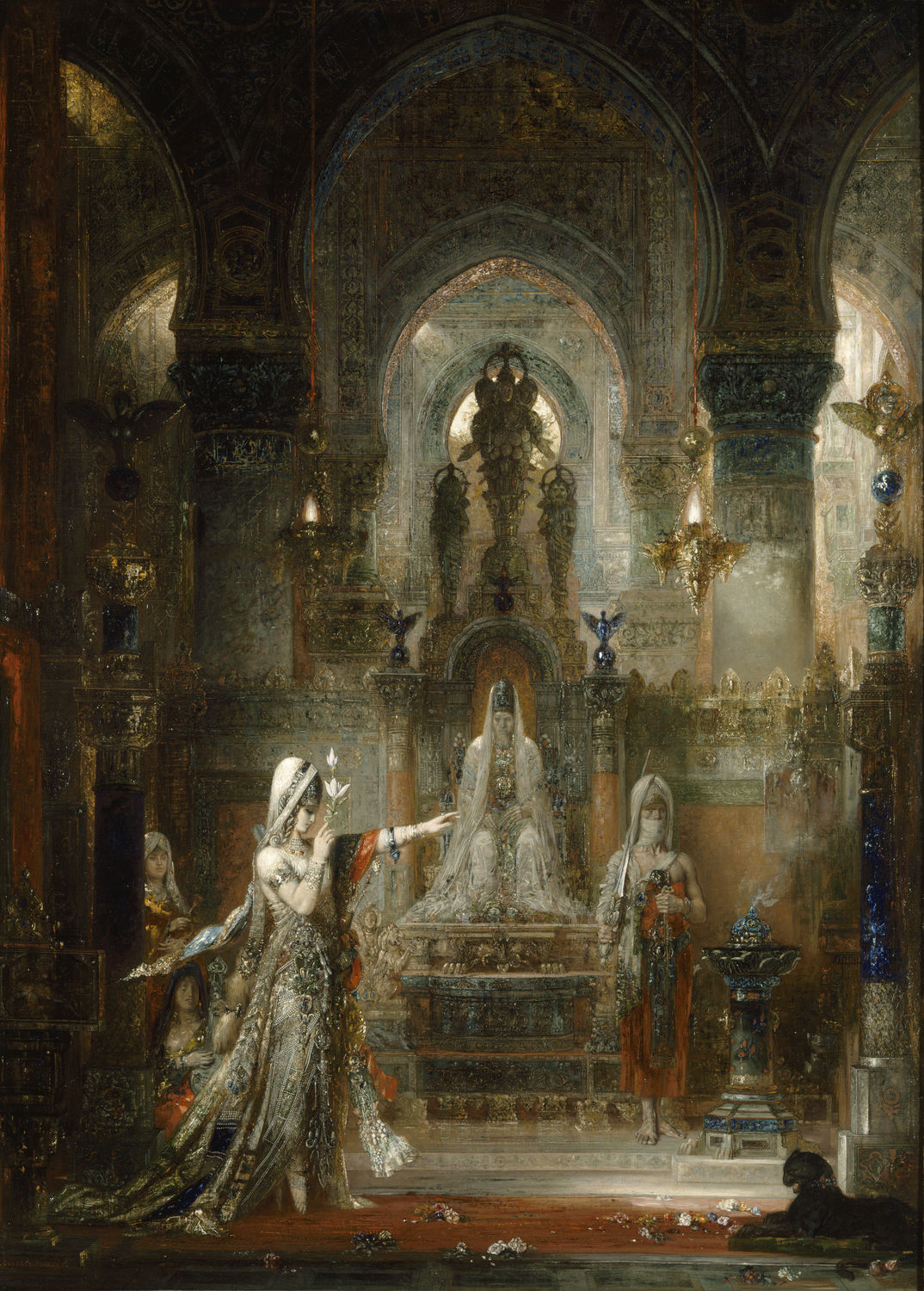 Height: 143.5 cm (56.4 in); Width: 104.3 cm (41 in) dimensions QS:P2048,143.5U174728;P2049,104.3U174728